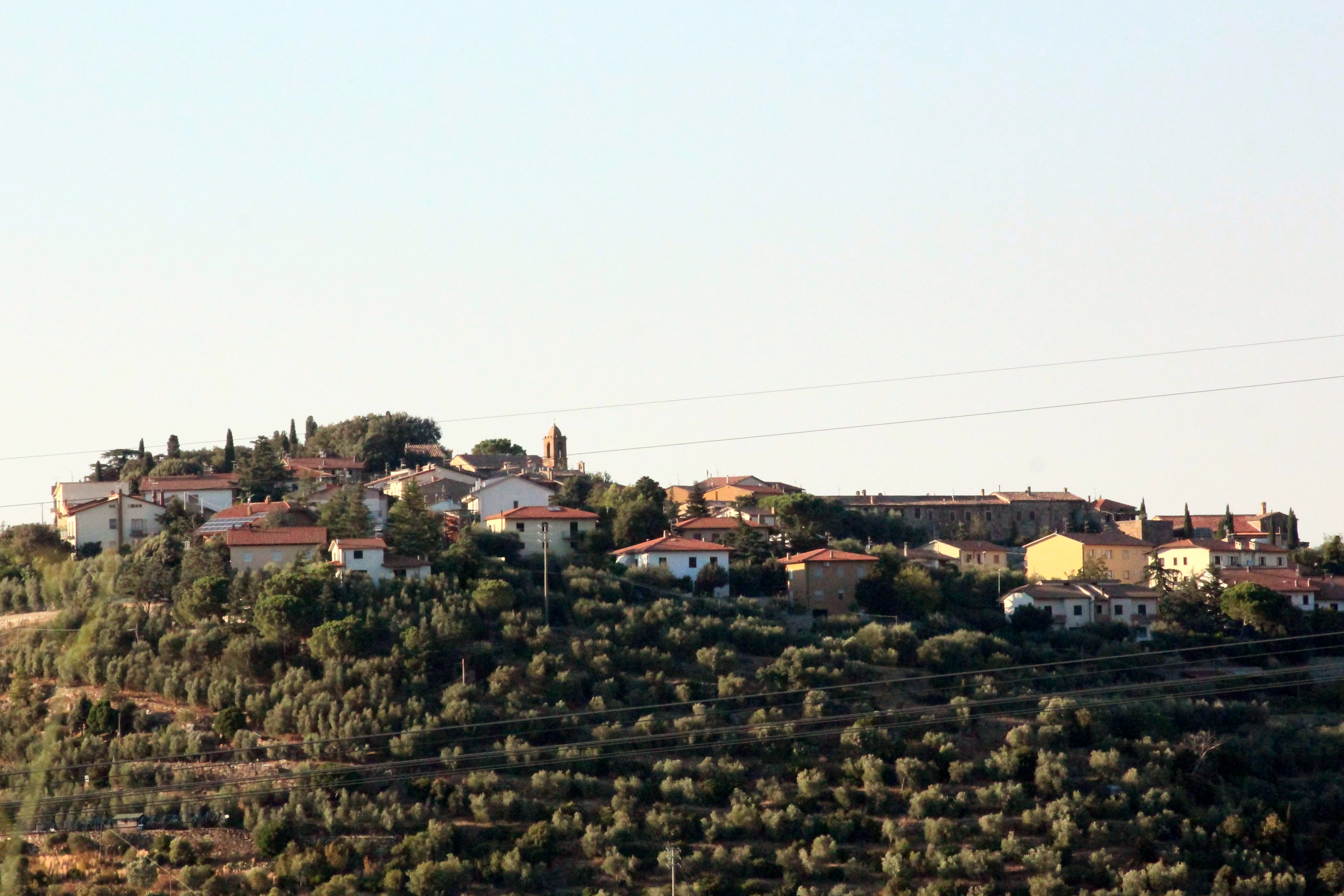 Panorama of Montenero d’Orcia, hamlet of Castel del Piano, Province of Grosseto, Tuscany, Italy